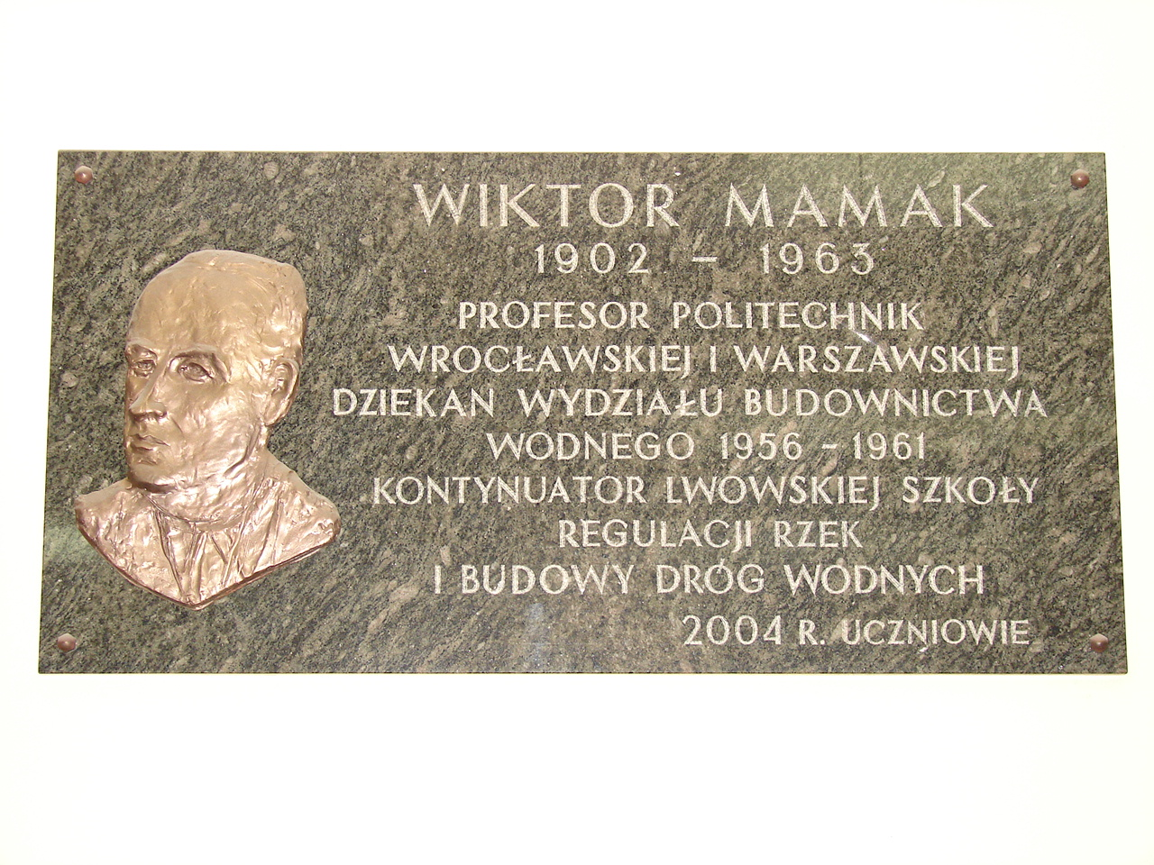 Tablica pamiątkowa poświęcona Wiktorowi Józefowi Mamakowi